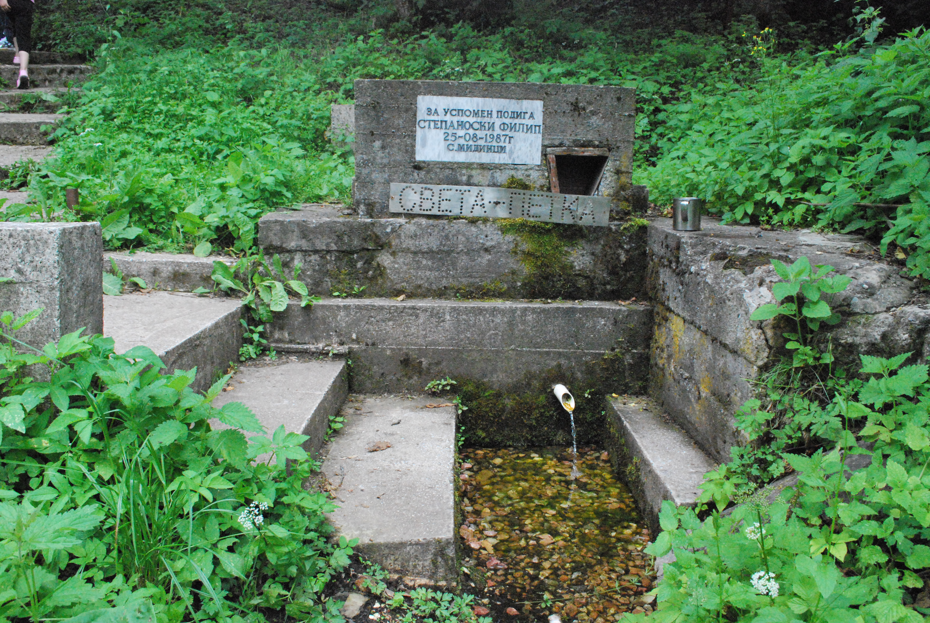 St. Petka's Well in Knežino Monastery near Kičevo village Knežino in Macedonia